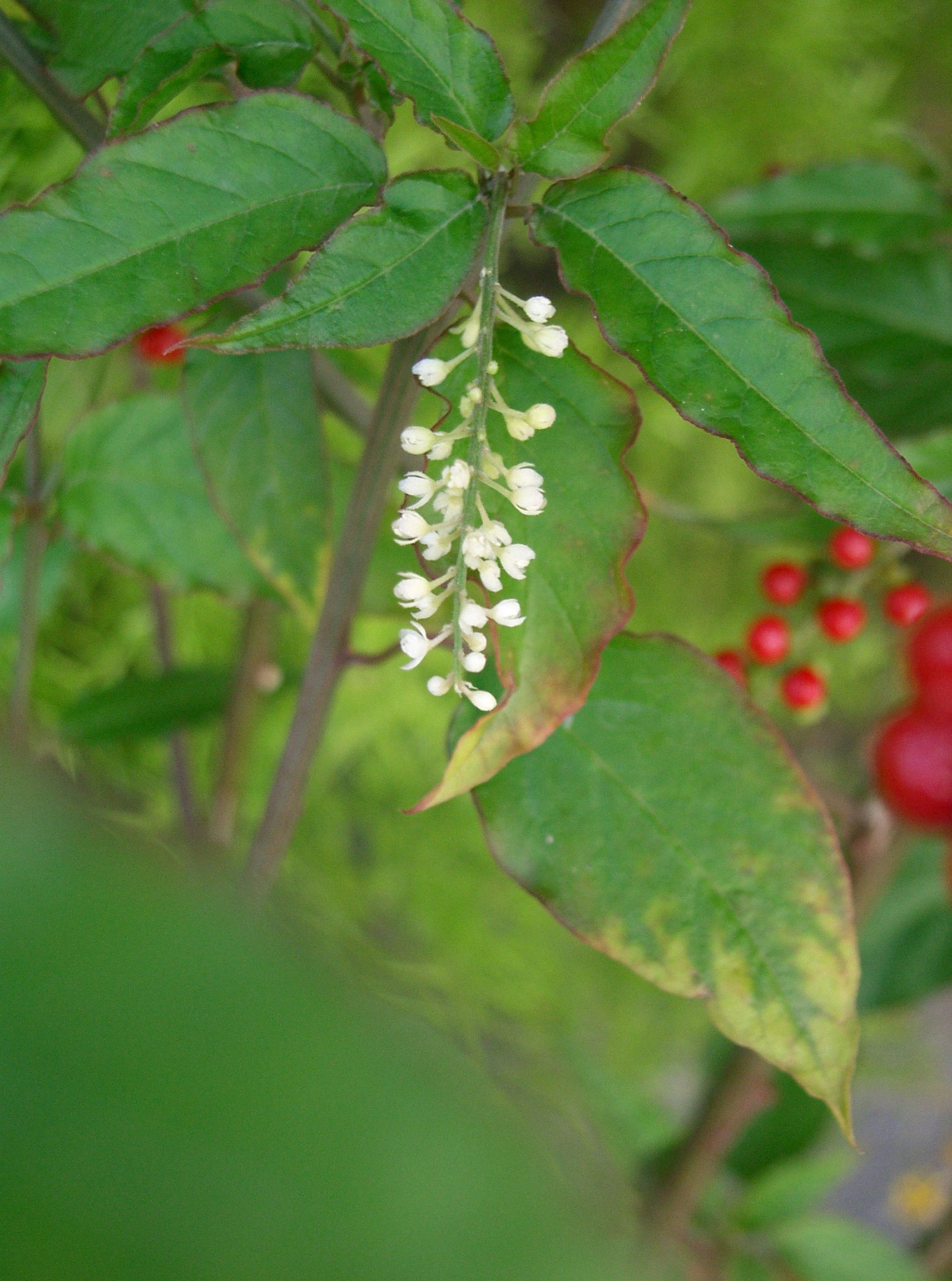 Scientific name: Rivina humilis. Place:Osaka-fu Japan